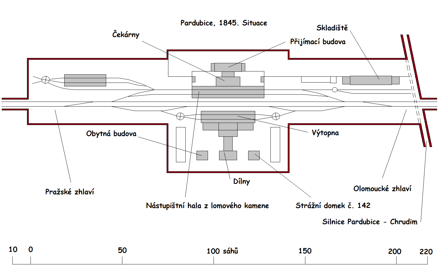 The nonexistent railway station in Pardubice. Built in 1845. Was found at the same place, what the present station Pardubice hlavní nádraží.